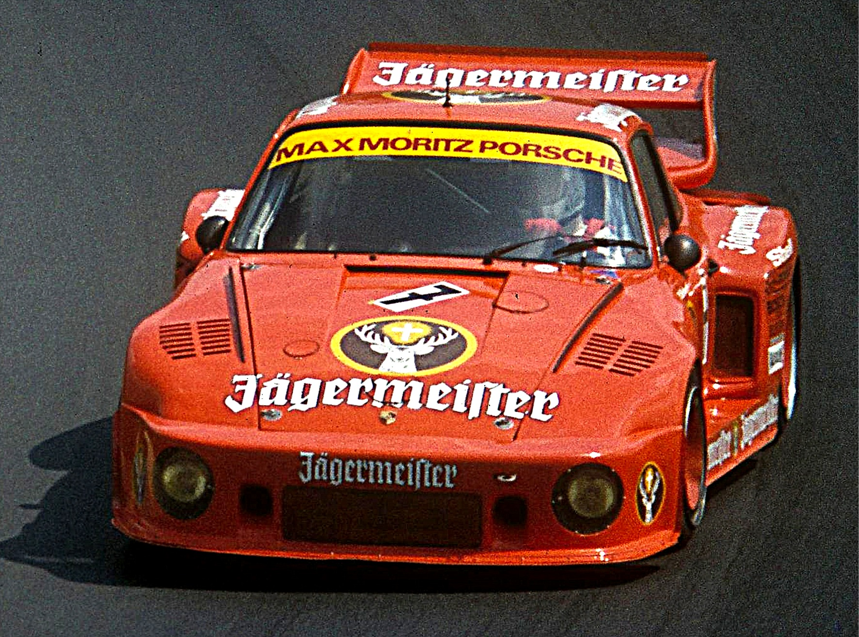 Helmut Kelleners with Porsche 935 on Nürburgring.